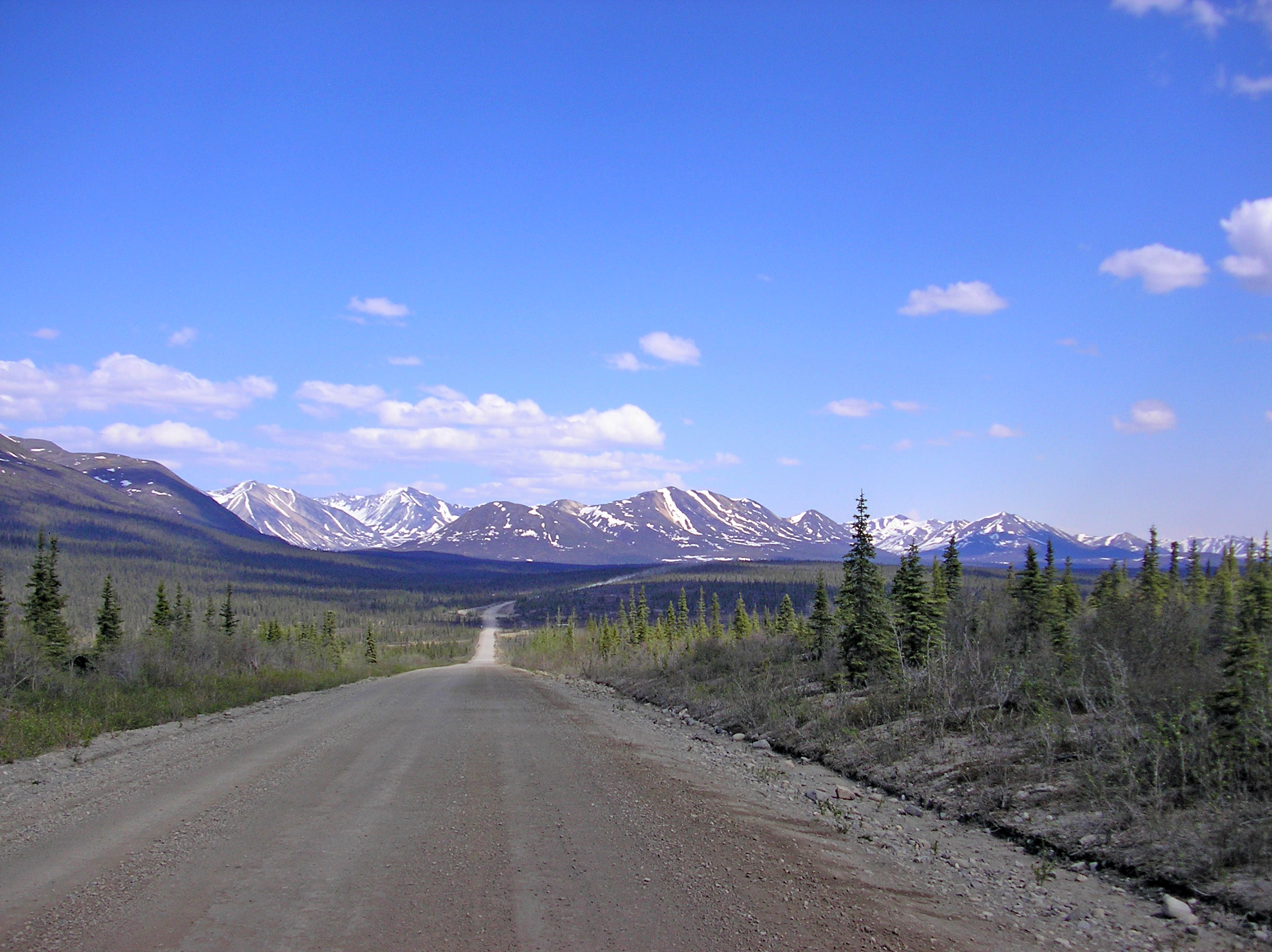 The Denali Highway toward the Cantwell end.